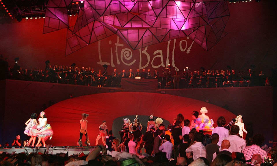 Opening show of the Life Ball 2007 at the Rathausplatz in Vienna, Austria.